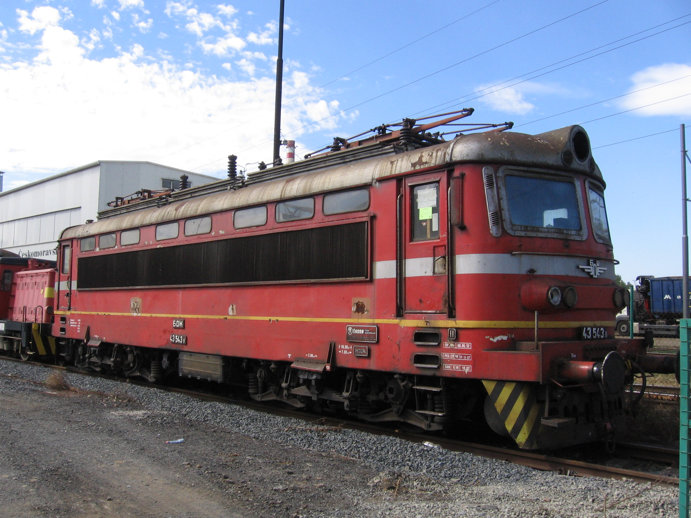 Ex BDŽ Class 43 in ČMŽO Přerov